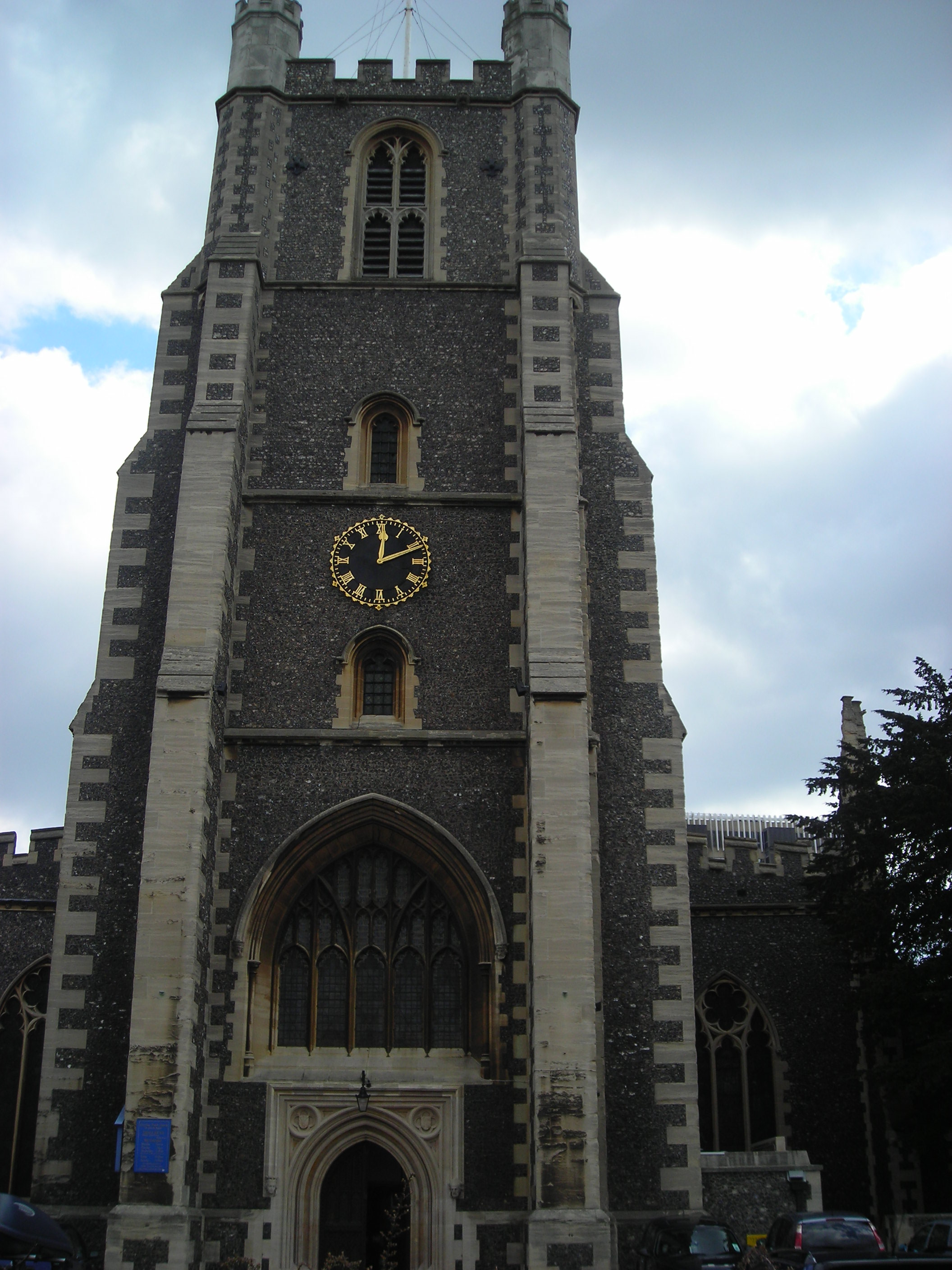 Image of Croydon Minster (previously Croydon Parish Church) from Old Town